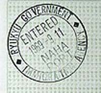 GRI entry stamp